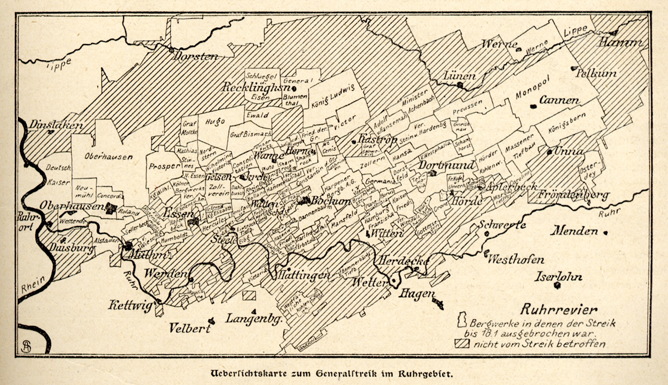 Schematic map of the general strike of mine workers in the west german Ruhrgebiet in January 1905